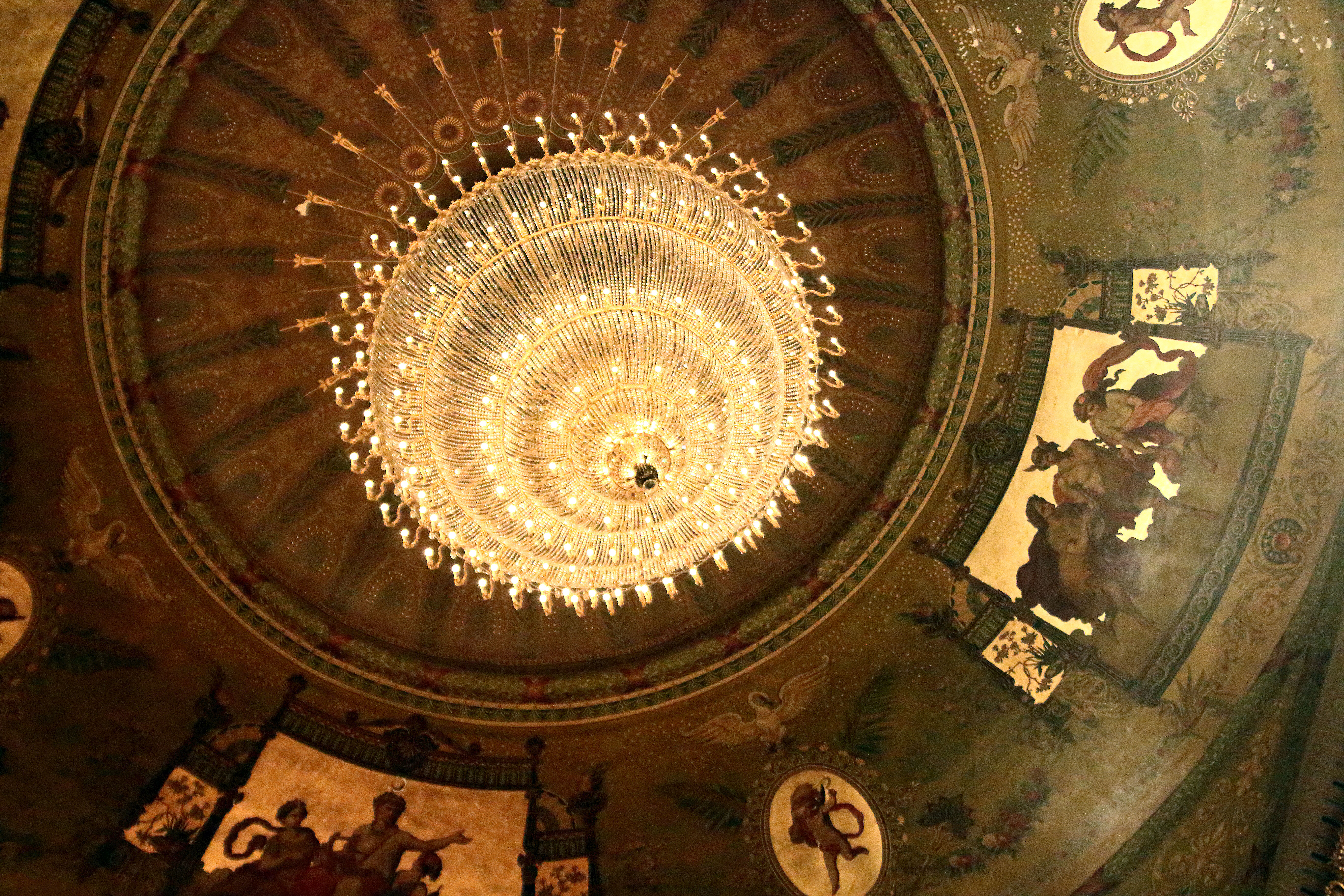 Interior of Philadelphia Academy of Music